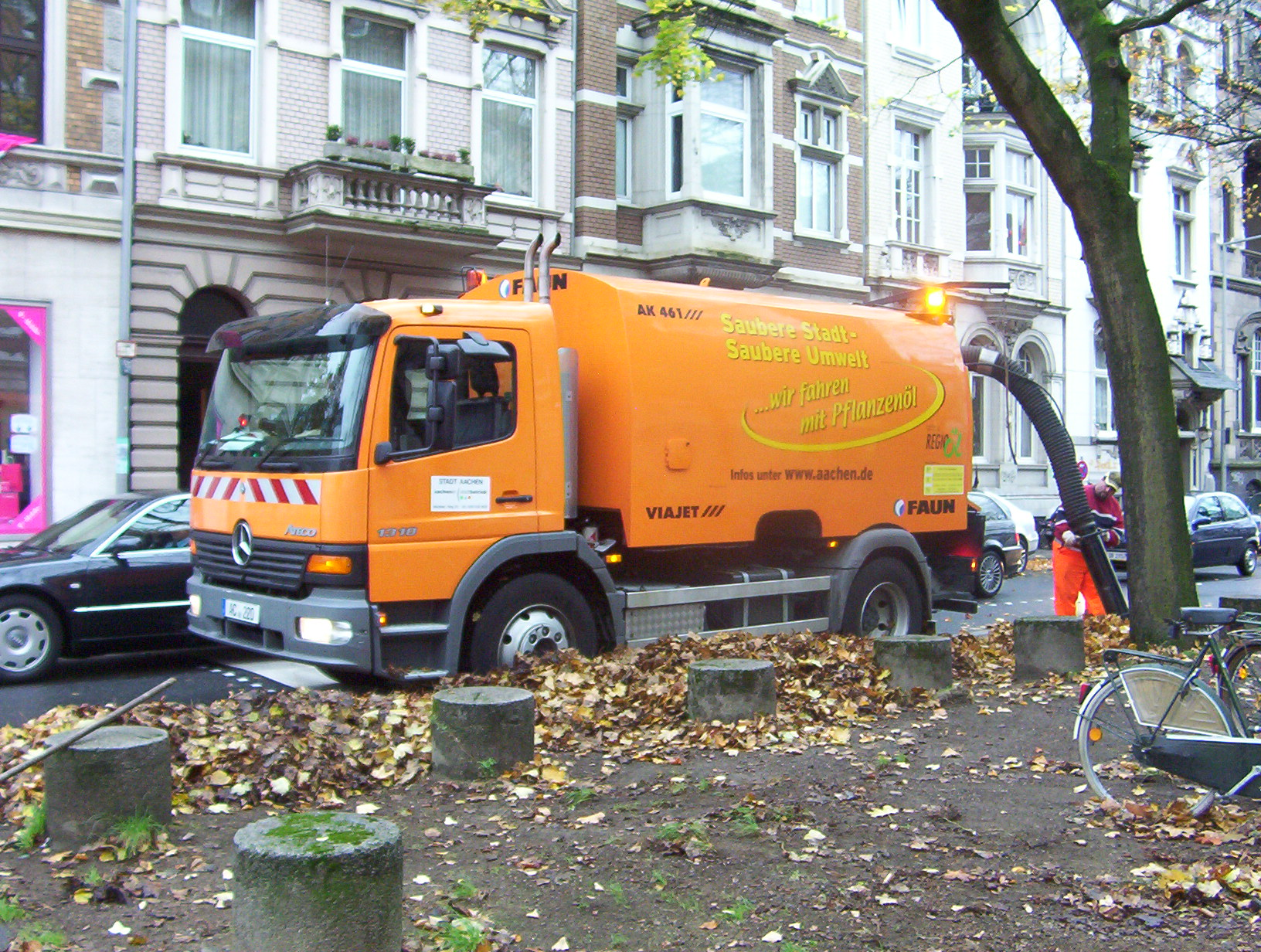 "That's an ecological truck!" – This photo was taken in Aachen, Germany in the autumn of 2005. It shows a Mercedes-Benz Atego truck fitted with a Faun Viajet AK 461 sweeper body which can suck in fallen leaves. The truck is labelled: "Clean city - clean environment. We're driving with vegetable oil."